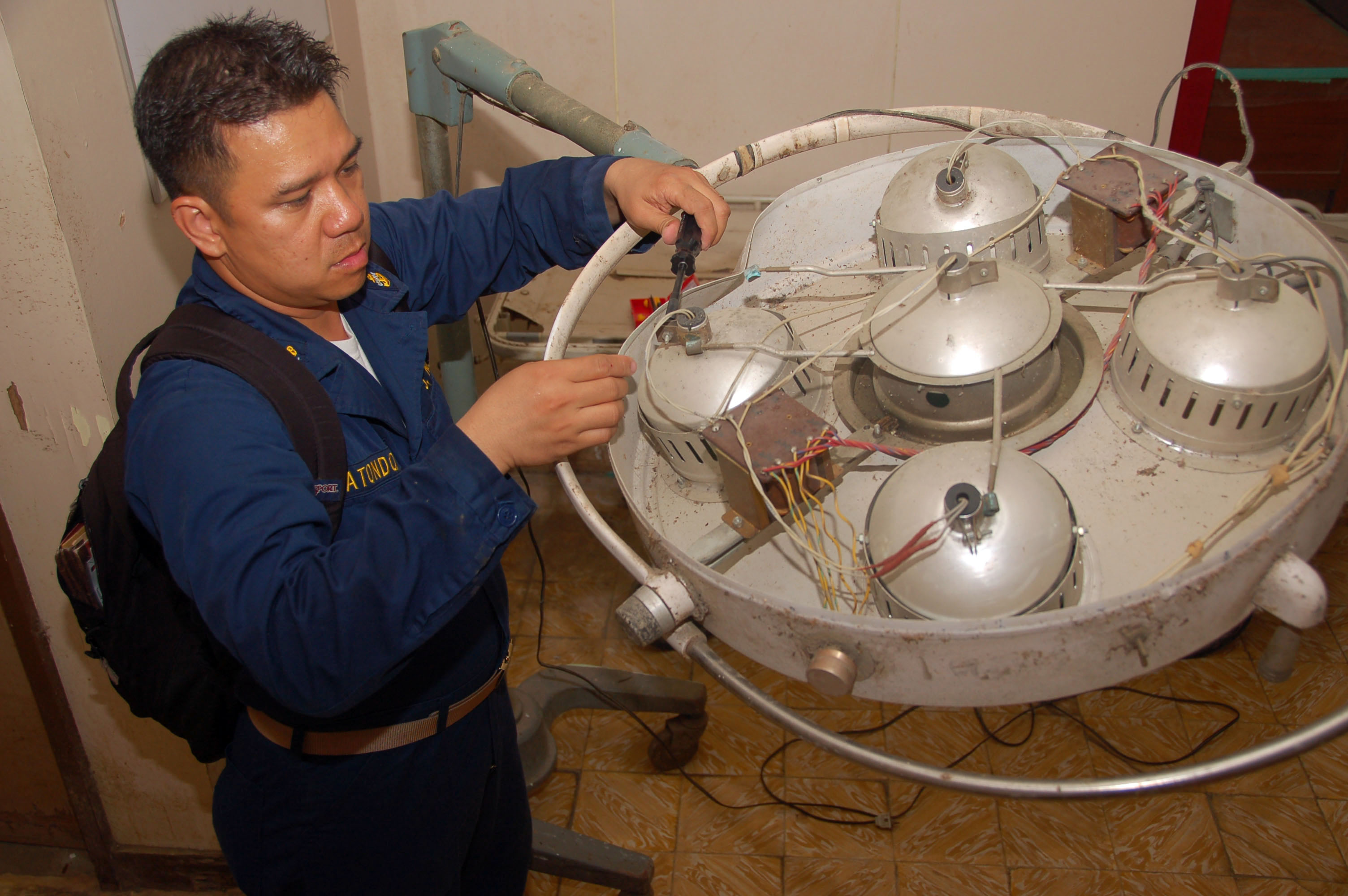 CALBAYOG CITY, Philippines (June 11, 2008) Chief Hospital Corpsman Israel Matando, assigned to the Military Sealift Command hospital ship USNS Mercy (T-AH 19), makes repairs on an operating room light at the Calbayog District Hospital. The Pacific Partnership 2008 medical repair team is in Calbayog City in Samar, Philippines to share their technical expertise with doctors and other medical professionals. Pacific Partnership is working with local officials to assist the government of the Philippines with a wide range of services including medical, dental and engineering projects. U.S. Navy Photo by Mass Communication Specialist 2nd Class Mark Logico (Released)